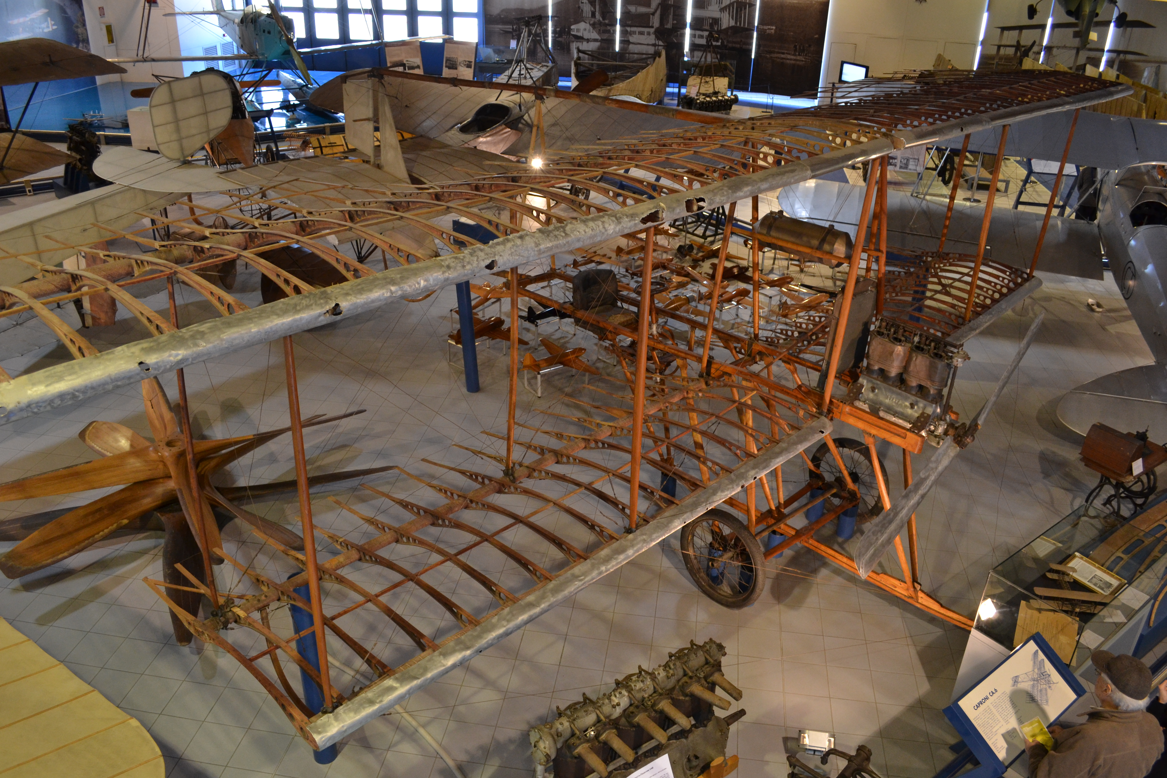 Italian pioneer prototype biplane Caproni Ca.6 is currently on display at the Museo dell'aeronautica Gianni Caproni in Trento, Italy.